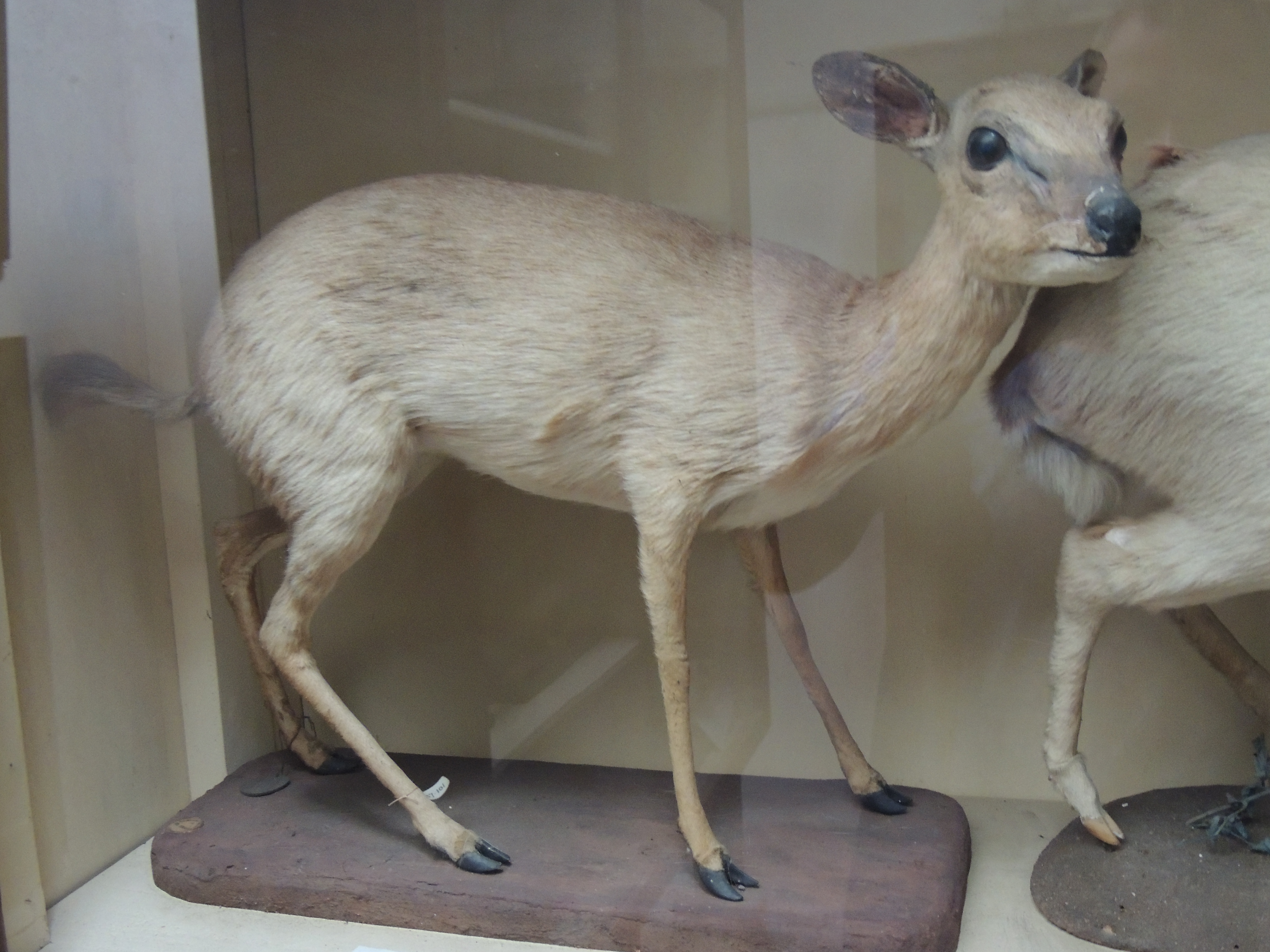 Zanzibar Suni (Neotragus moschatus moschatus) in Zanzibar Natural History Museum in Zanzibar City (or Zanzibar Town), Zanzibar (Tanzania).